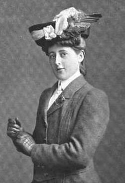 Mabel Harrison, from a 1907 publication. A young white woman standing in a tailored suit, leather gloves, and a large plumed hat.